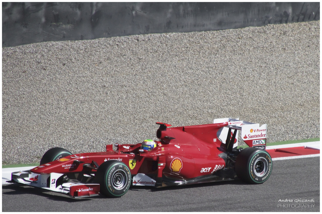 Felipe Massa driving for Scuderia Ferrari at the 2010 Italian Grand Prix.